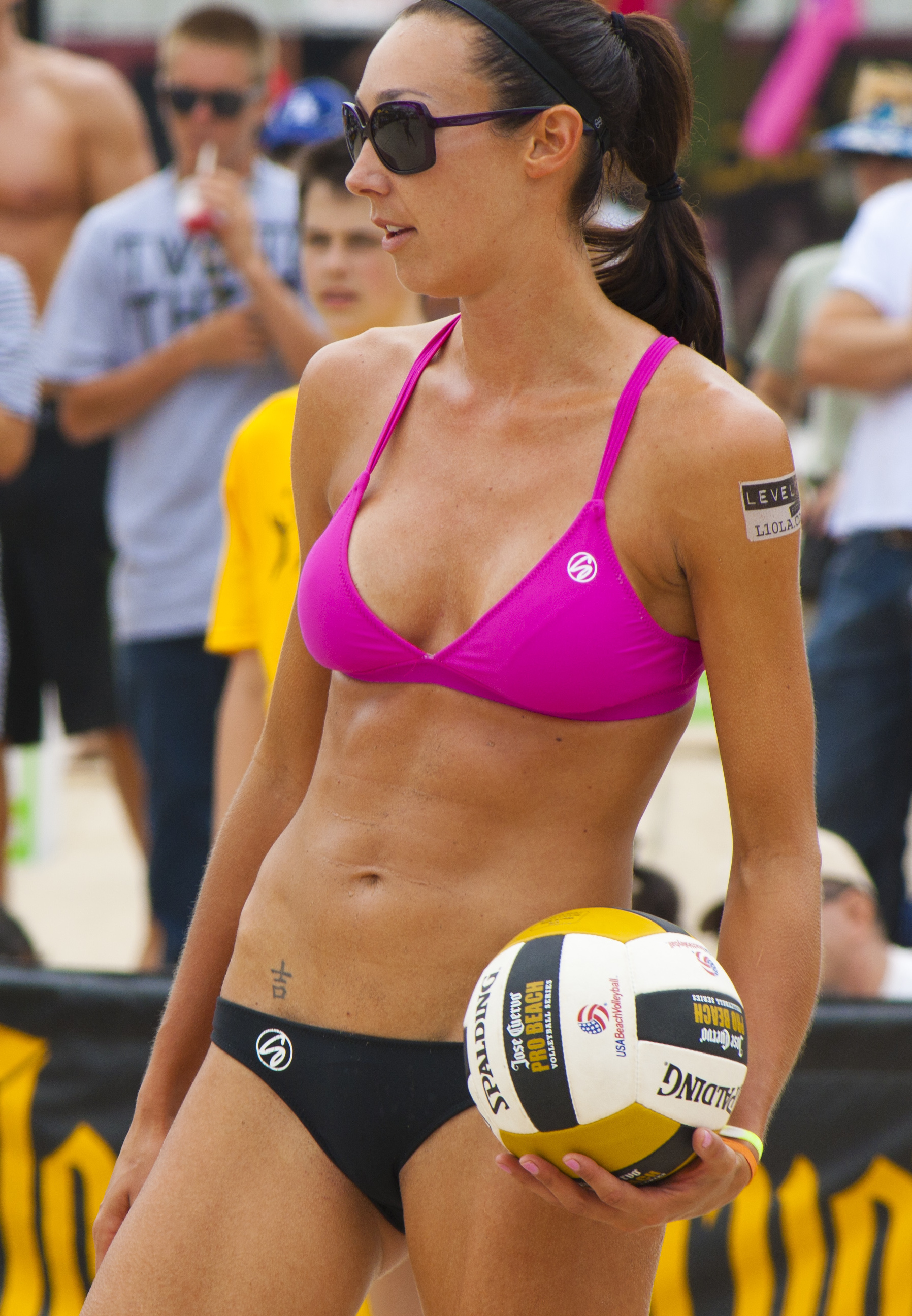 Hermosa Beach Los Angeles, California 7/21/2012. Jenny Kropp